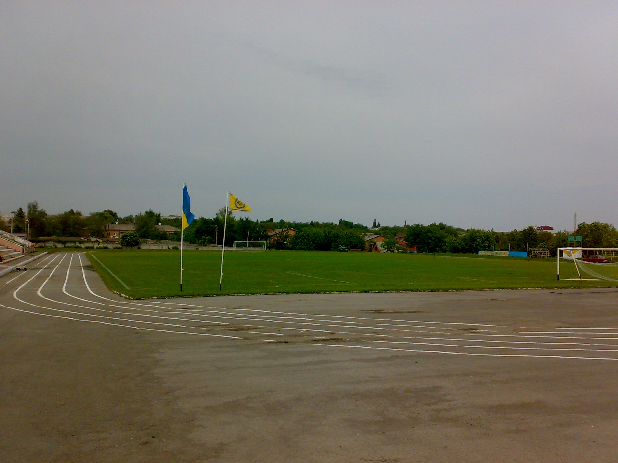 Stadium in the Dunaivtsi city